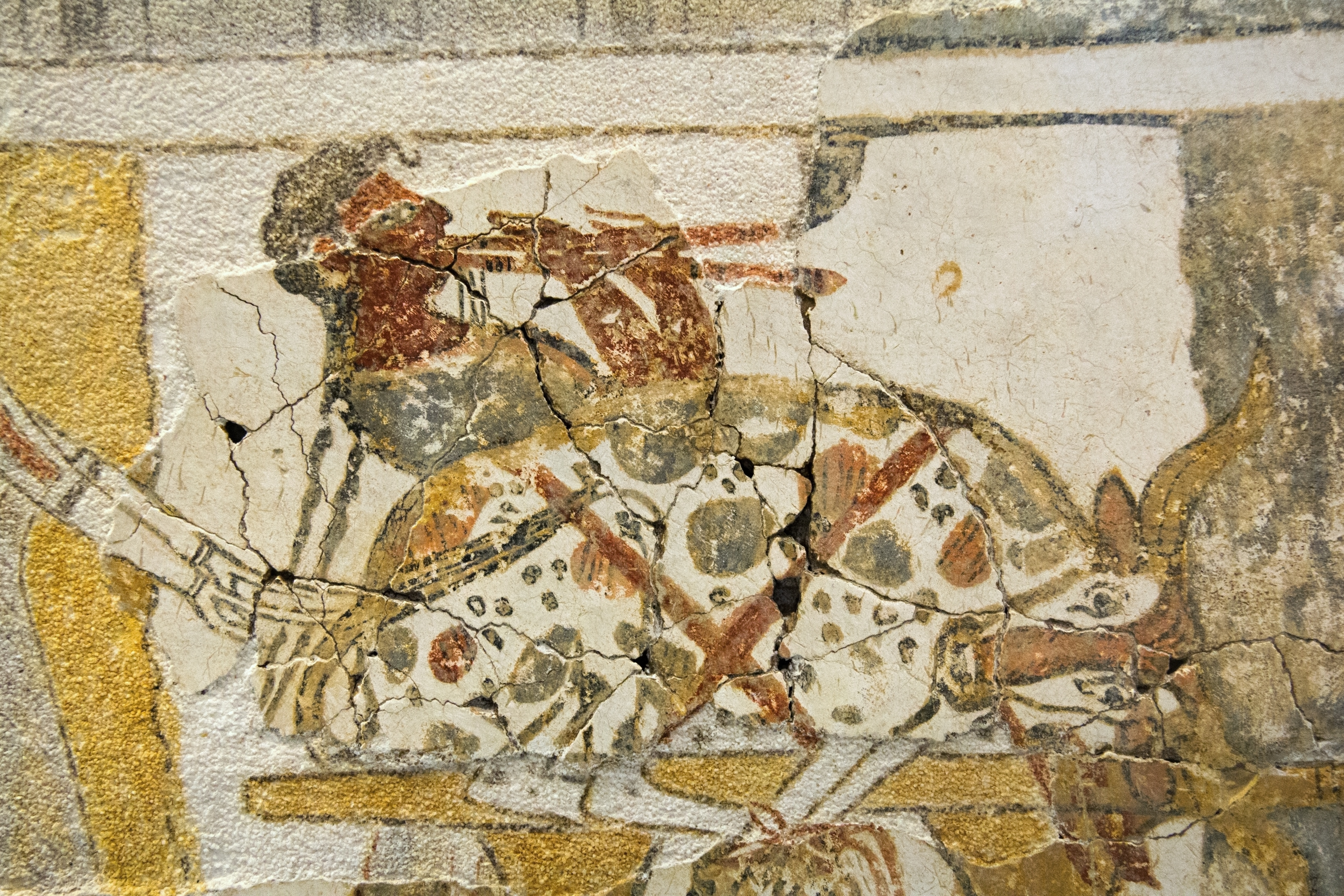 The sarcophagus of Agia Triada, long side 1, fresco. Sacrifice of a bull, detail. Hands pointing down refer to the chthonian deity. Double flute playing (diaulos). 1370-1320 BC. Archaeological Museum of Heraklion.